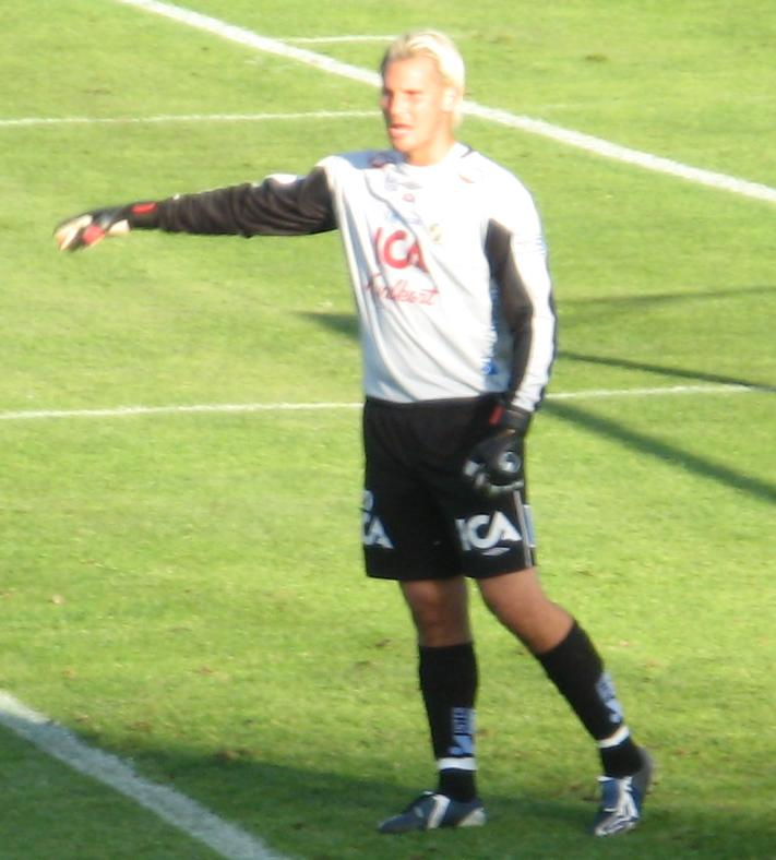 Magnus Bahne during friendly against Reading F.C. 2008.